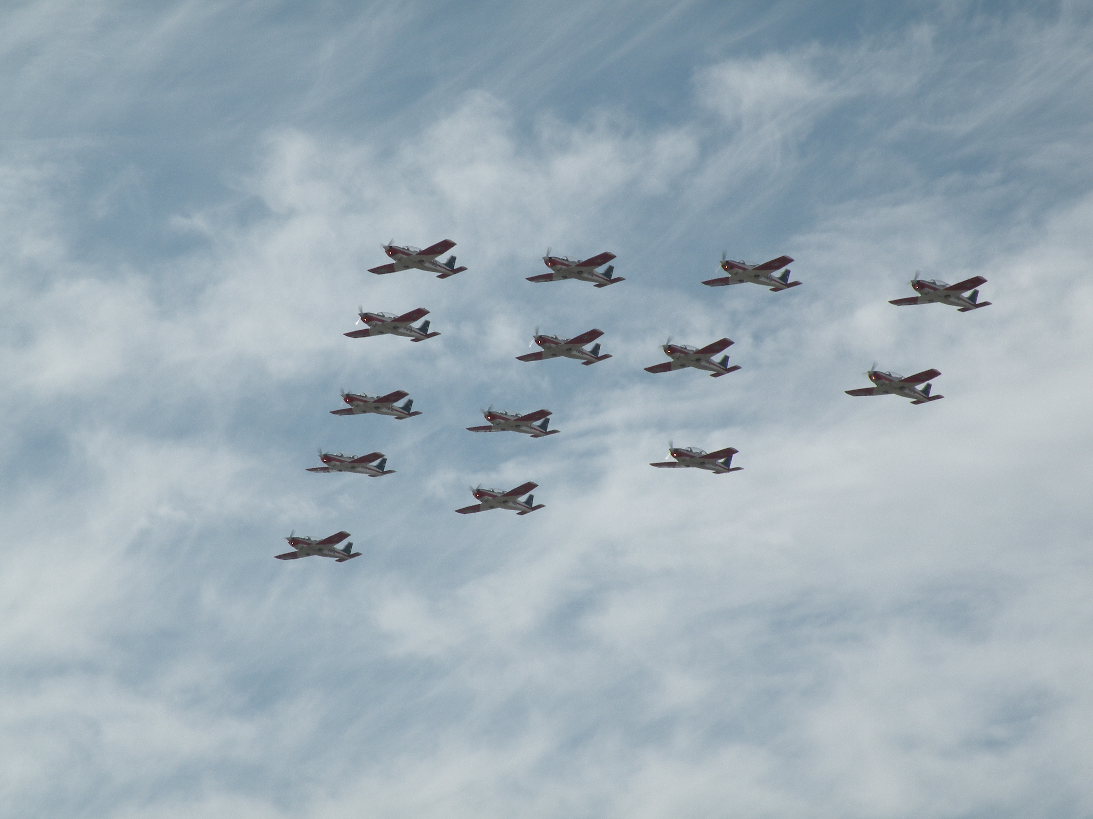 ENAER T-35 Pillán of Chilean Air Force (Fuerza Aérea de Chile) fly in formation above Santiago at military parade (parada militar) in 2009.